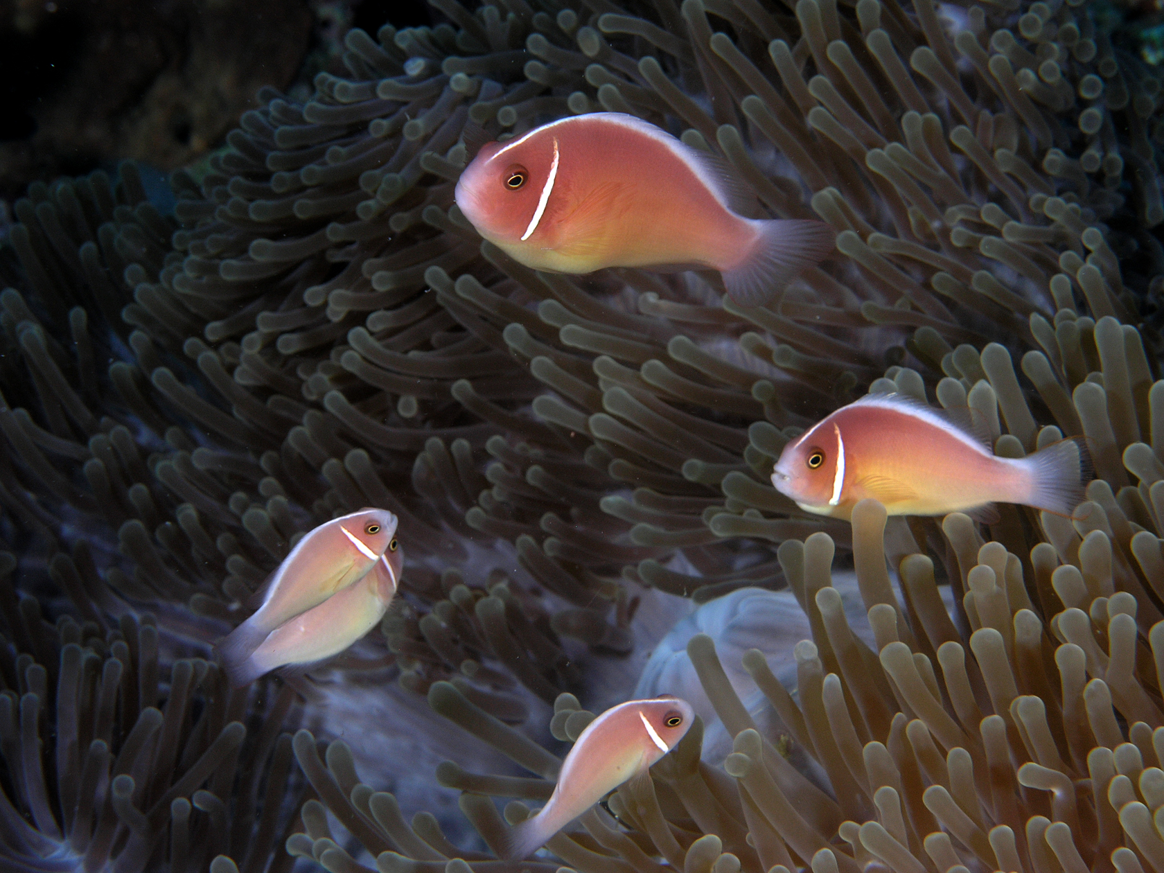 Pink skunk clownfish (Amphiprion perideraion) in Komodo National Park